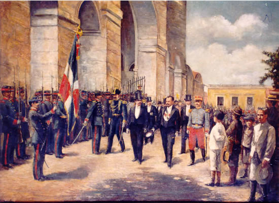 President Alejandro Woss y Gil taking office in his second presidential period in 1903.